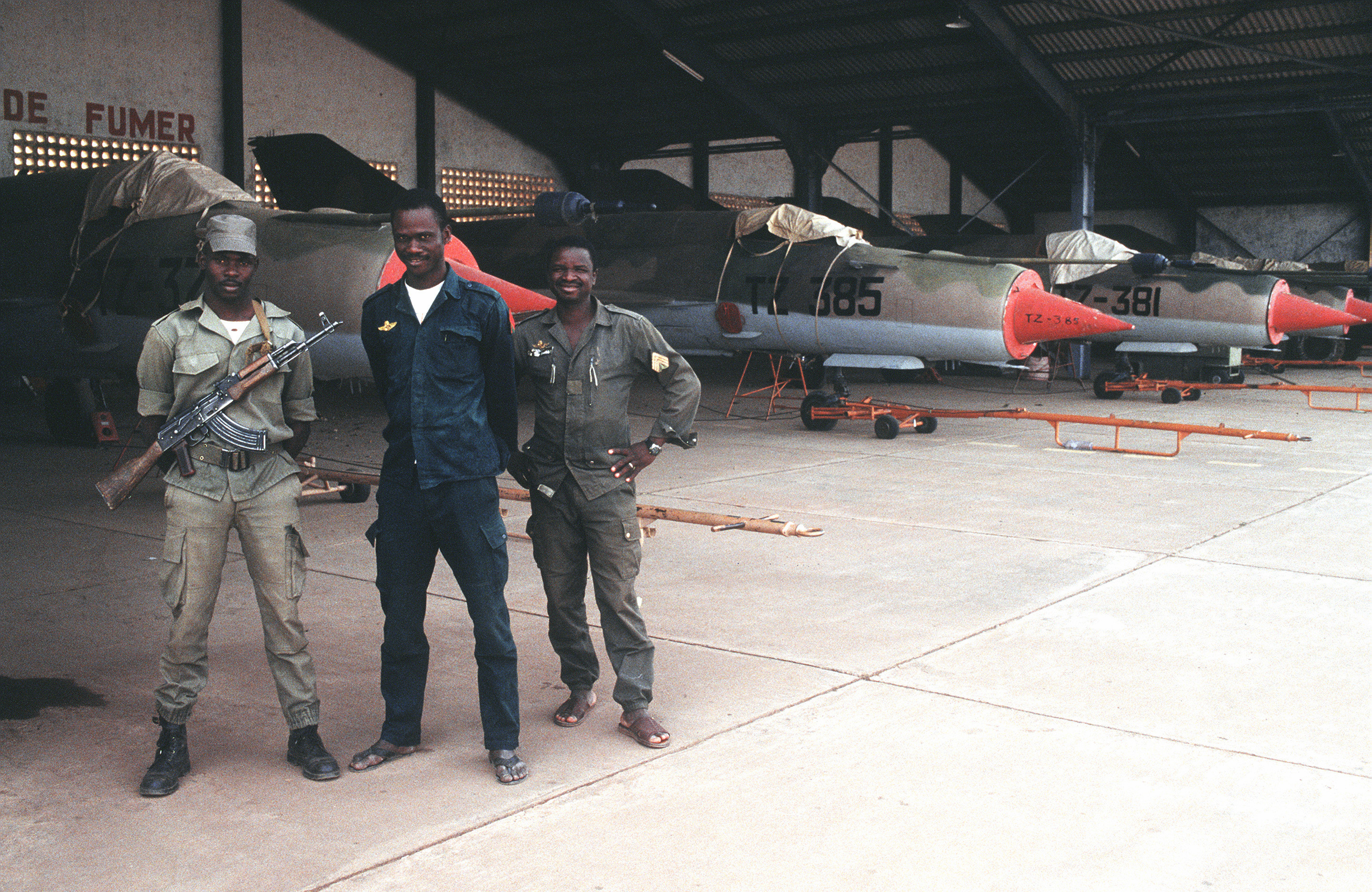 Original caption Three Mali army troops stand in a hangar, in front of Mali Air Force's MiG 21bis fighter aircraft at Bamako/Senou Airport in Mali. They are observing Economic Community Military Observation Group 13 (ECOMOG) Mali Army troops board a U.S. Air Force aircraft at the airport. The troops are being airlifted to Robert's International Airport, Liberia for a six month deployment on U.S. military aircraft participating in Operation Assured Lift, a 17- day United States airlift and support mission assisting the West African states deploying more than 1100 troops to Liberia as part of the region's ongoing peacekeeping force.